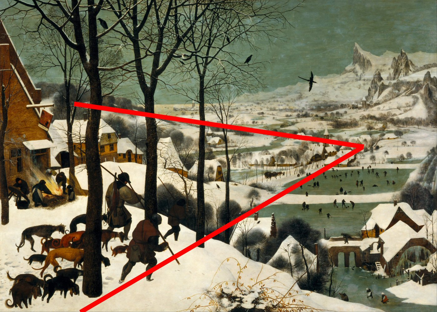 Pieter Bruegel the Elder - Hunters in the Snow Hidden Arrow